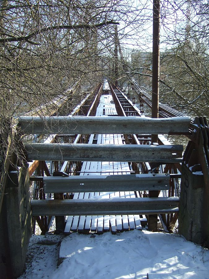 Bukciai bridge (Lithuania)